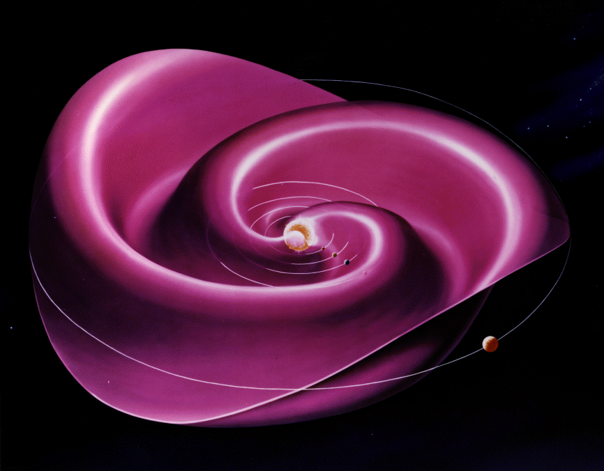 The heliospheric current sheet results from the influence of the Sun's rotating magnetic field on the plasma in the interplanetary medium (solar wind). The wavy spiral shape has been likened to a ballerina's skirt.